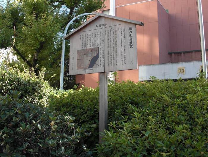 Ochiba-naki-shii (Yokoami, Sumida, Tokyo, Japan)